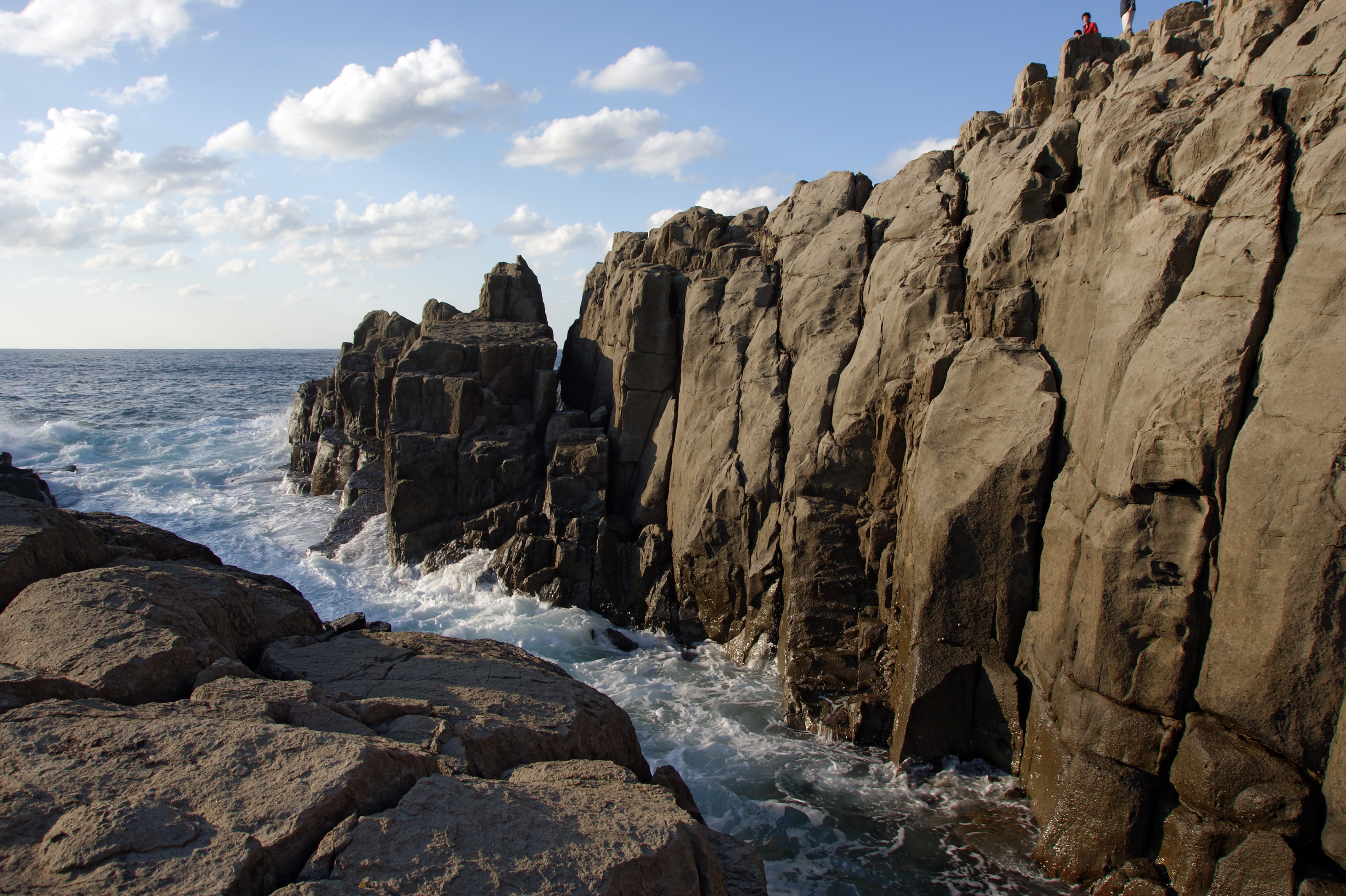 Tojinbo, Sakai, Fukui prefecture, Japan